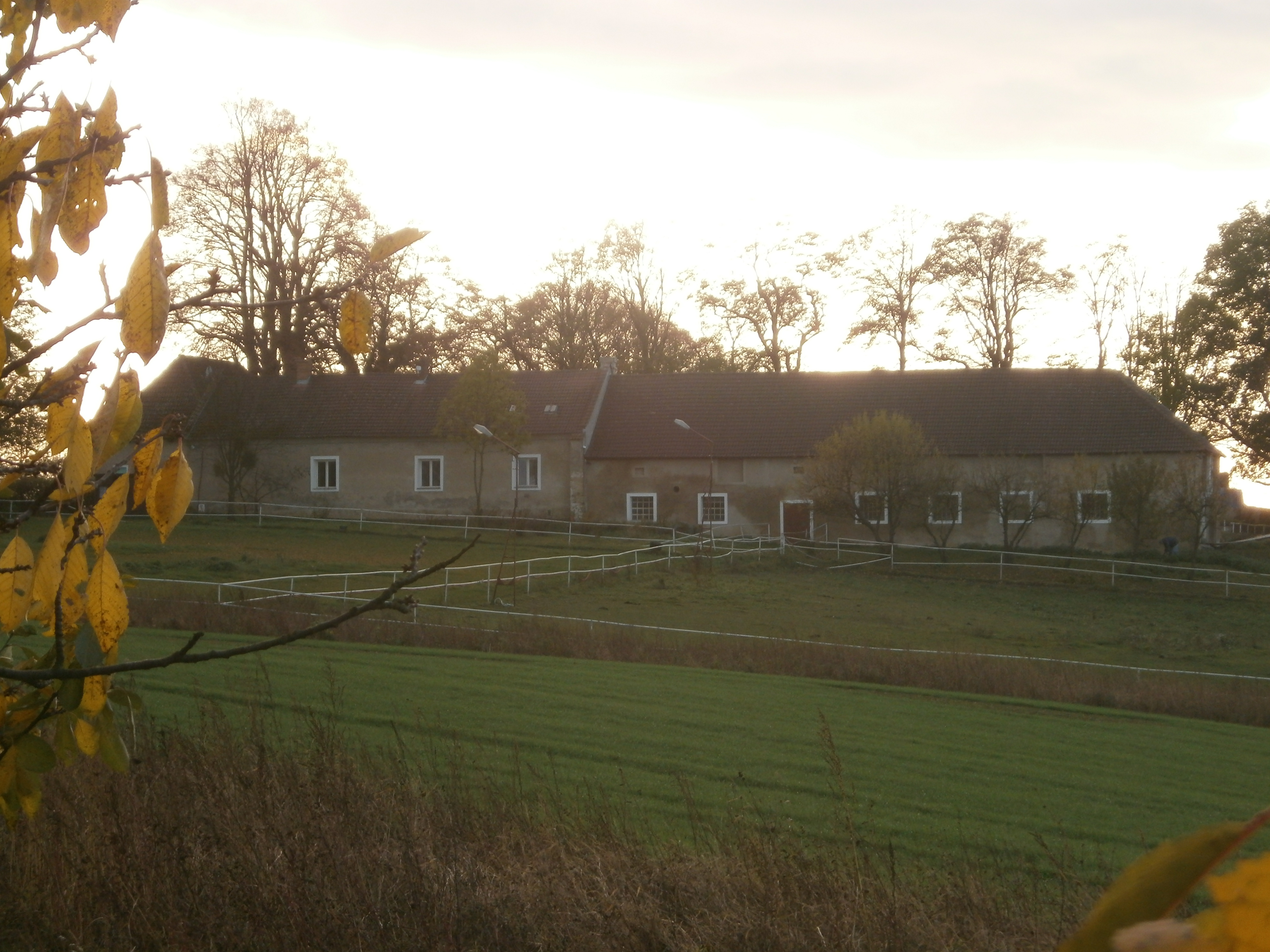 dvorec Vystrkov